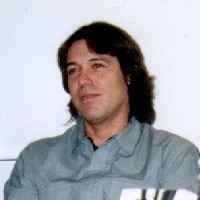 Cesareo